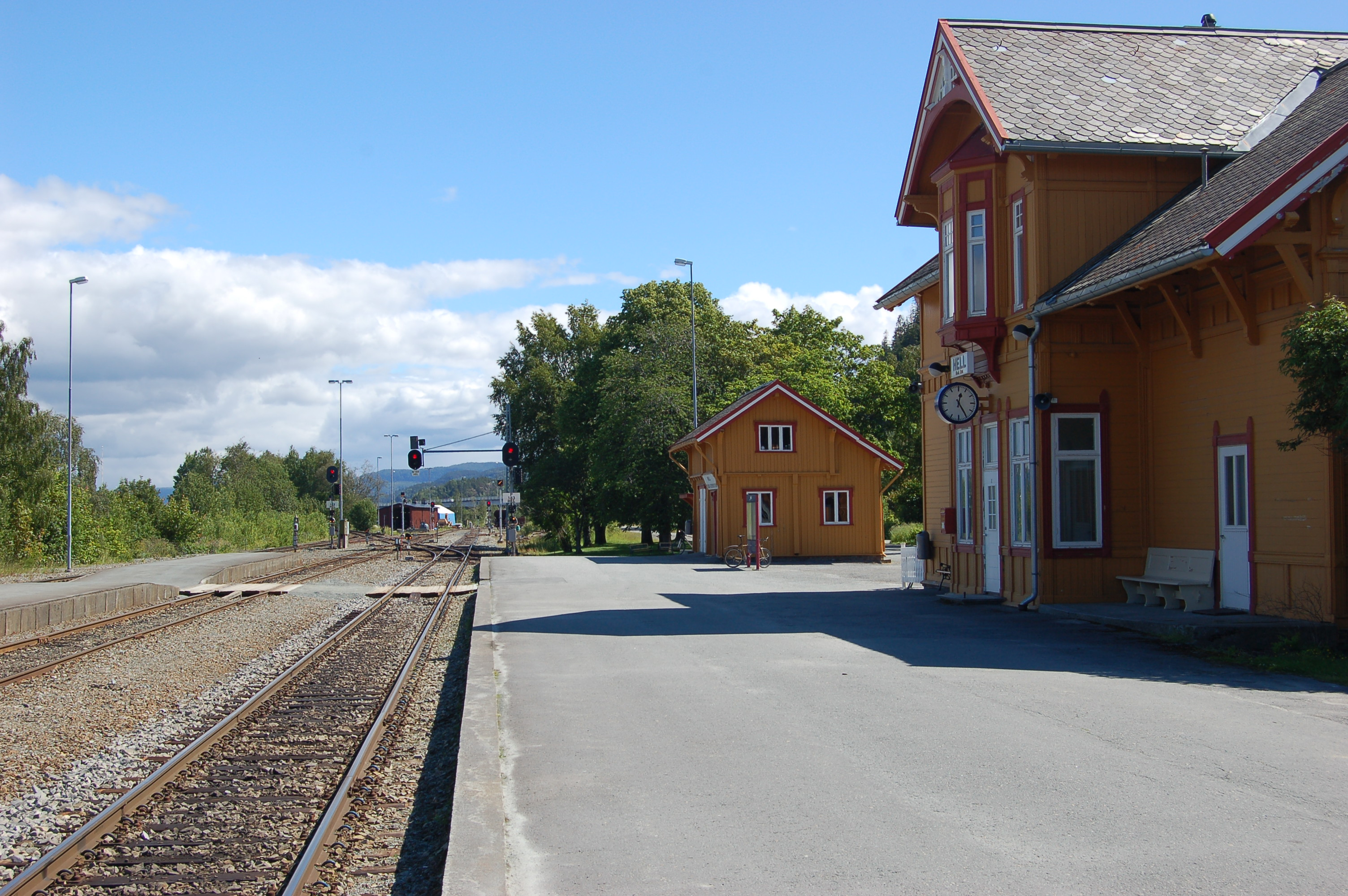 Hell Station on Nordlandsbanen, in Stjørdal, Norway.